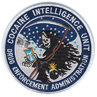 A patch of the United States Drug Enforcement Administration (US DEA) "Cocaine Intelligence Unit." The patch depicts the grim reaper with a scythe, an hourglass, and a bomb in a field of snow.